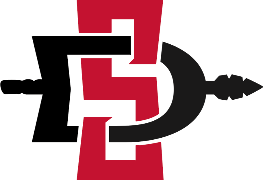 Official logo for the San Diego State Aztecs.